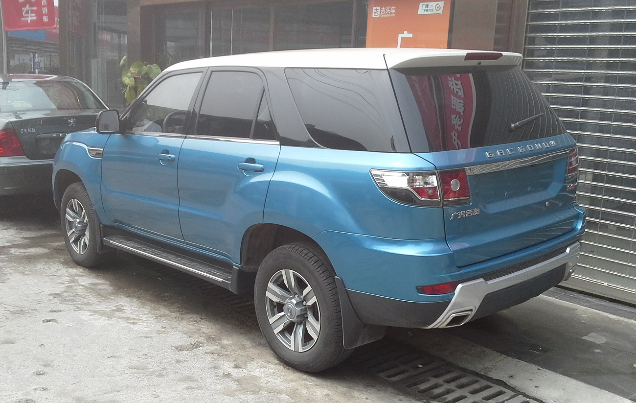 Gonow Aoosed GX6 photographed in Chongqing, China.